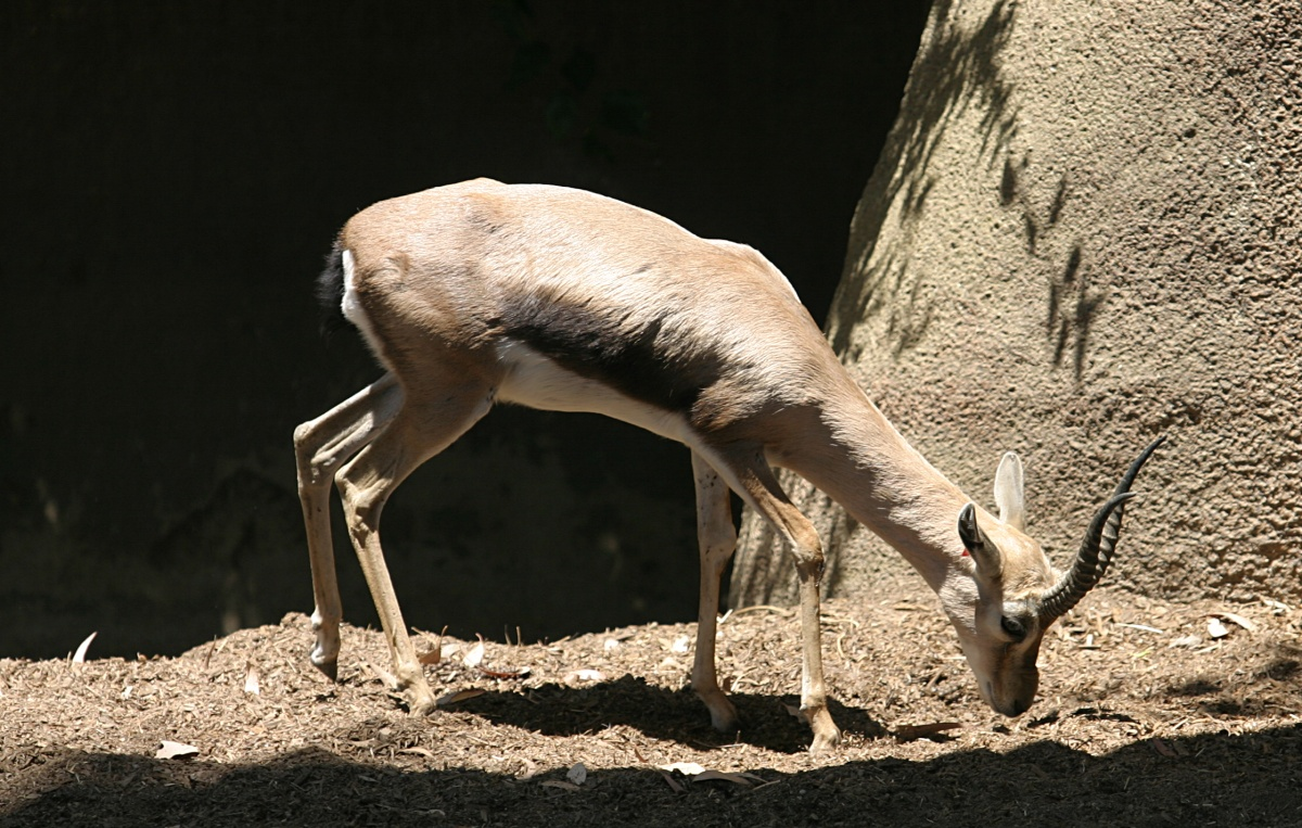 A Speke's Gazelle at the San Diego Zoo in San Diego, California, USA.